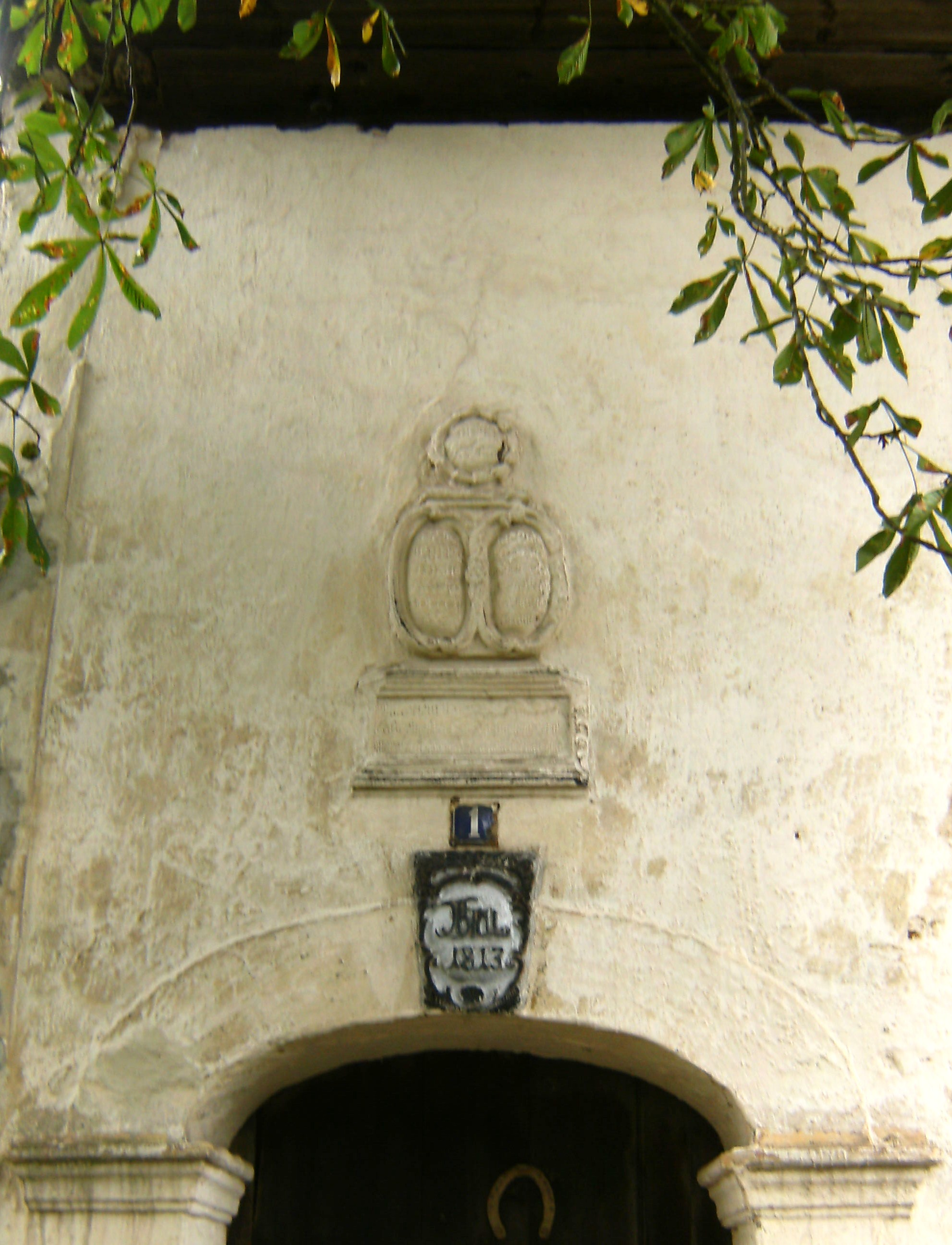 Taubenpreskeln,detail of an olf farmhouse portal.